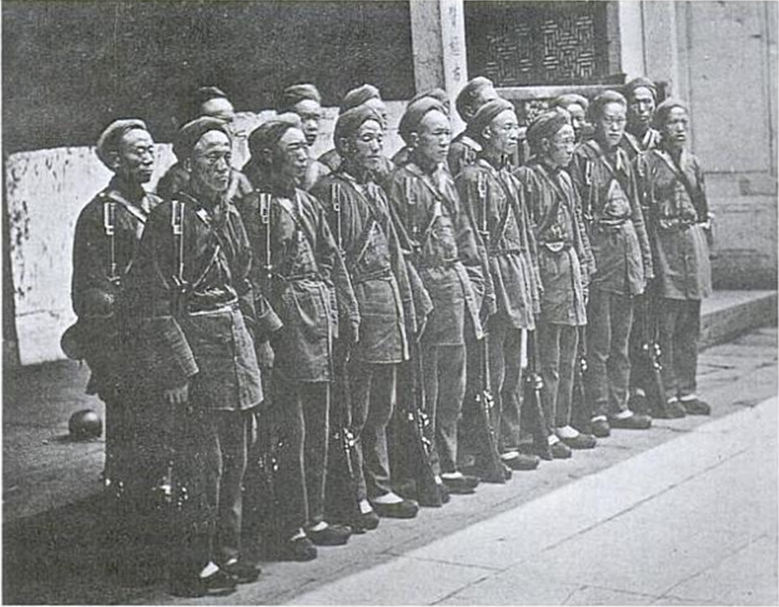 Chinese Imperial army troops around 1867, they were trained by foreigners. Photo taken by John Thomson (photographer) and he died over 70 years ago so its in public domain